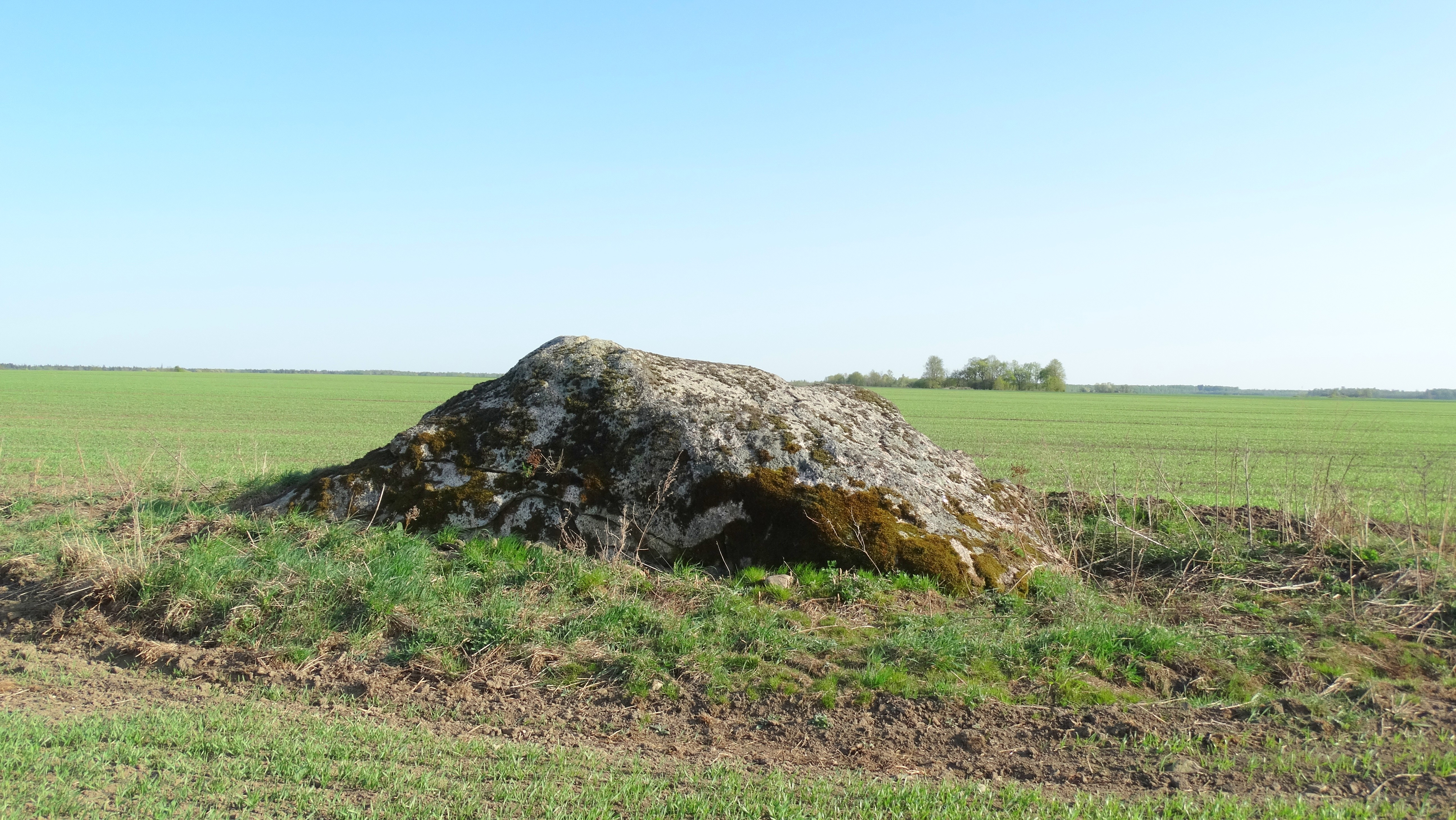 Gaidžiakalnis Stone, Pakruojis District, Lithuania